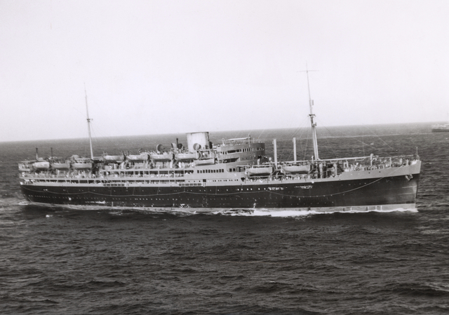 AWM image 303219. 1940. STARBOARD SIDE VIEW OF THE BRITISH TROOPSHIP MV DUNERA II WHICH TRANSPORTED AUSTRALIAN AND NEW ZEALAND TROOPS TO THE MIDDLE EAST AS PART OF CONVOYS US.1 AND US.2 IN 1940-01 AND 1940-04 RESPECTIVELY. IN 1942-01 SHE WAS ESCORTED BY RAN UNITS WHEN BRINGING REINFORCEMENTS TO BATAVIA. SHE ACHIEVED A MEASURE OF FAME FOR TRANSPORTING FROM BRITAIN TO AUSTRALIA A GROUP OF GERMAN AND AUSTRIAN INTERNEES IN 1940-09, MANY OF WHOM WENT ON TO ACHIEVE PROMINENCE IN AUSTRALIAN LIFE. (NAVAL HISTORICAL COLLECTION)